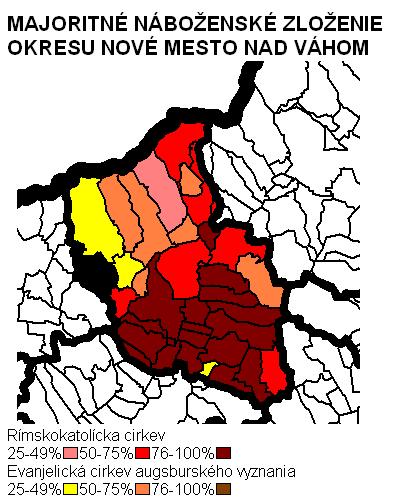 Religion in Nové Mesto district.